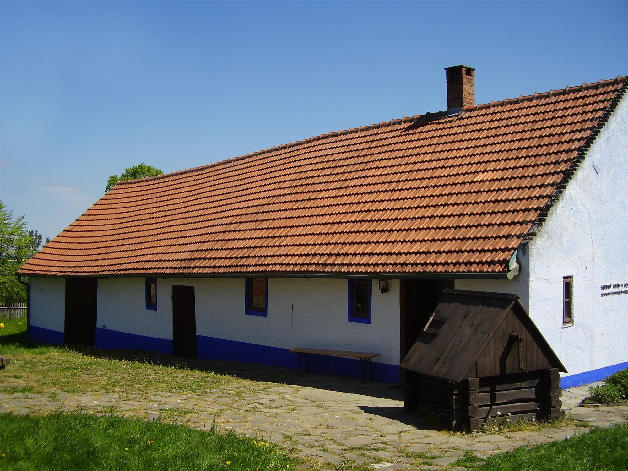 Open-air museum near windmill in Kuželov